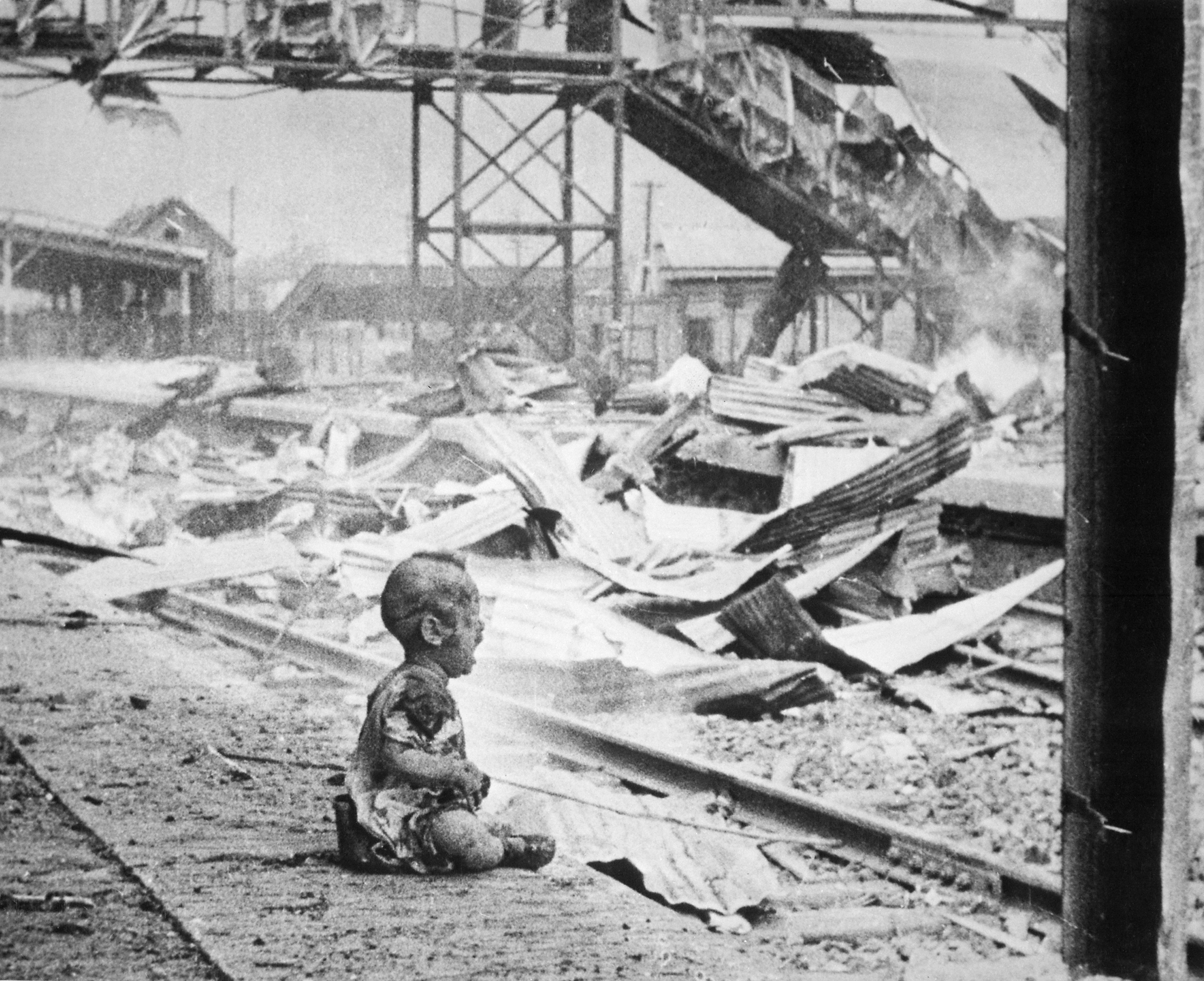 This terrified baby was one of the only human beings left alive in Shanghai's South Station after the brutal Japanese bombing in China.